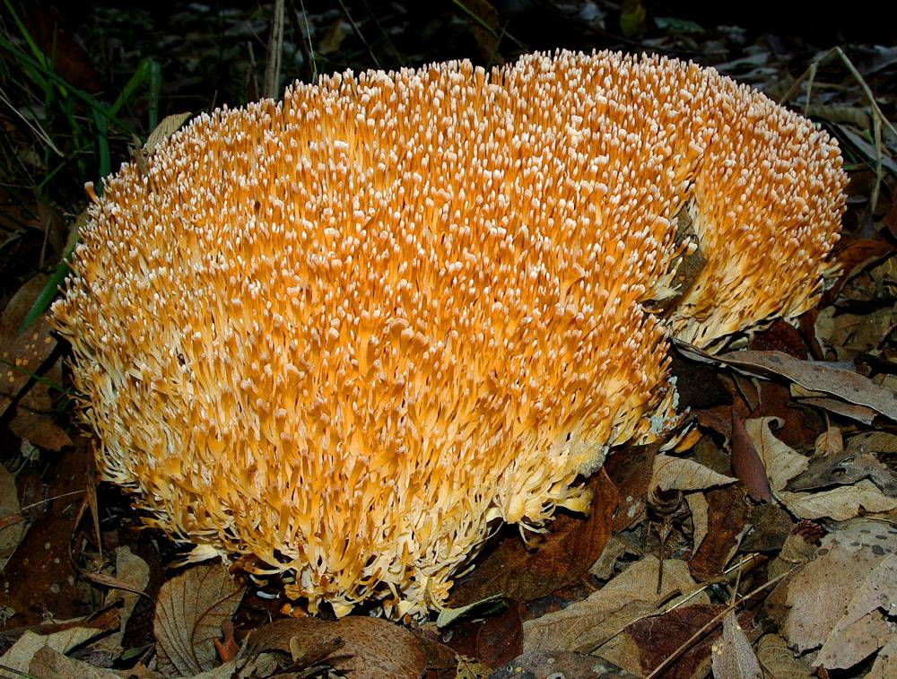 A fruit body of a fungus from the genus Aphelaria, possibly Aphelaria complanata. Photographed in Dandenong Ranges National Park, Victoria, Australia.